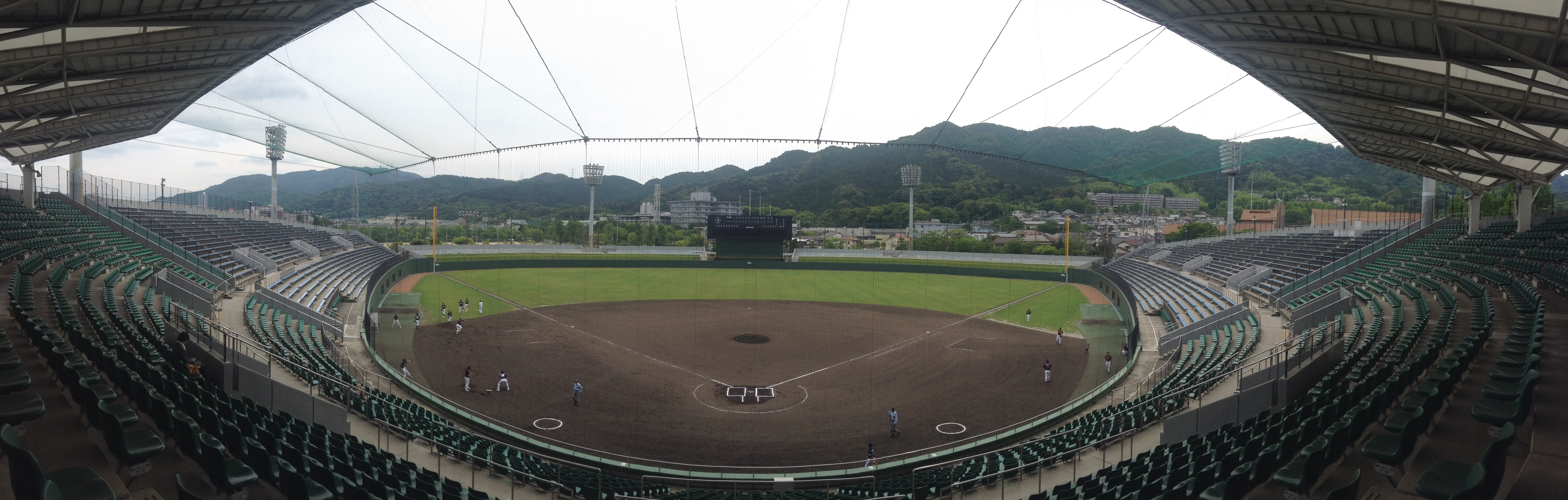 The panoramic photograph of Ojiyama Baseball Stadium